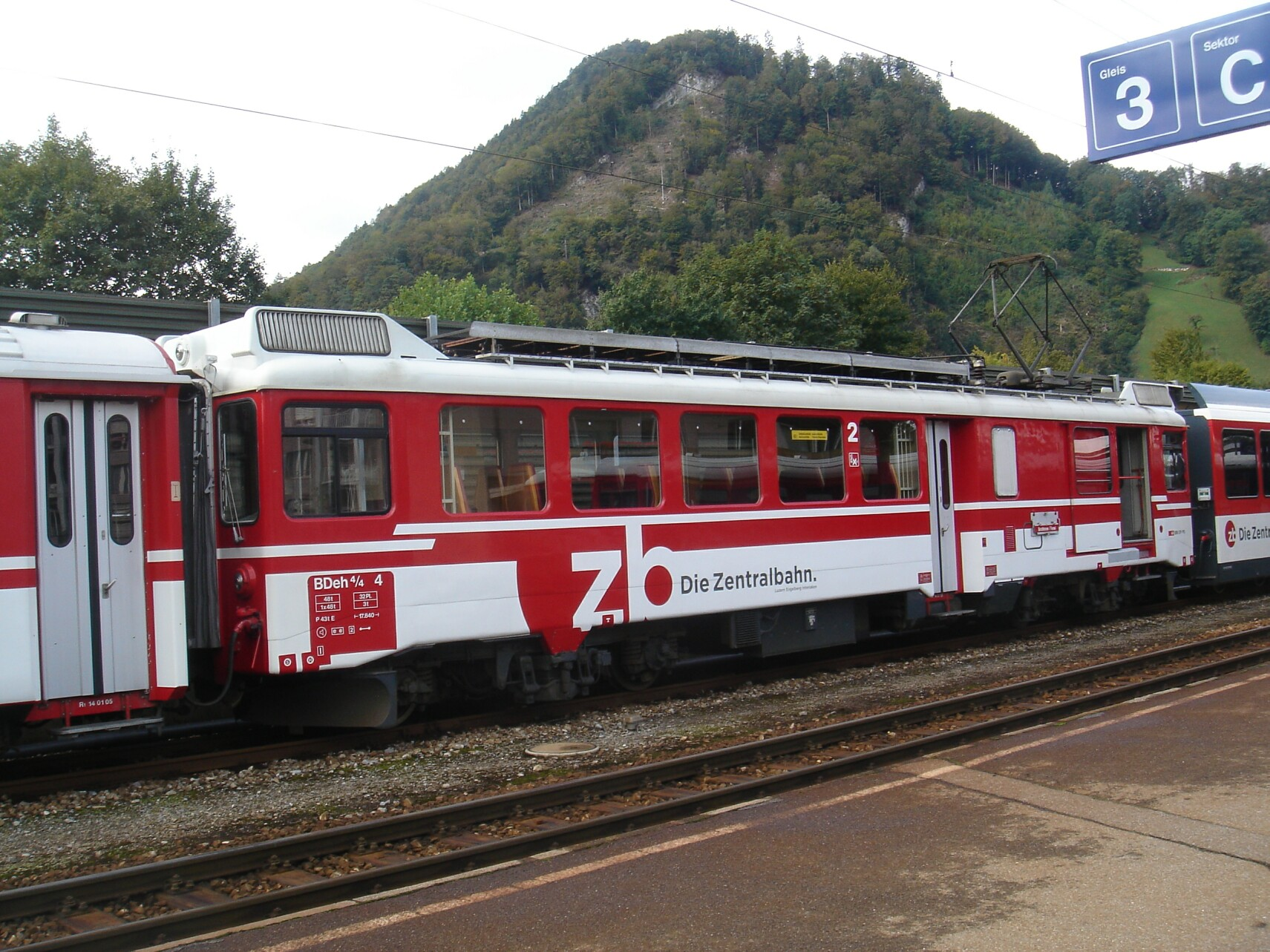 Zentralbahn BDeh 4/4 4 (BDeh 140 004 of 1964) parked in Stansstad station